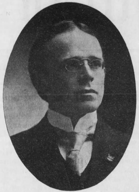 James W. Bryant (Washington state Congressman)